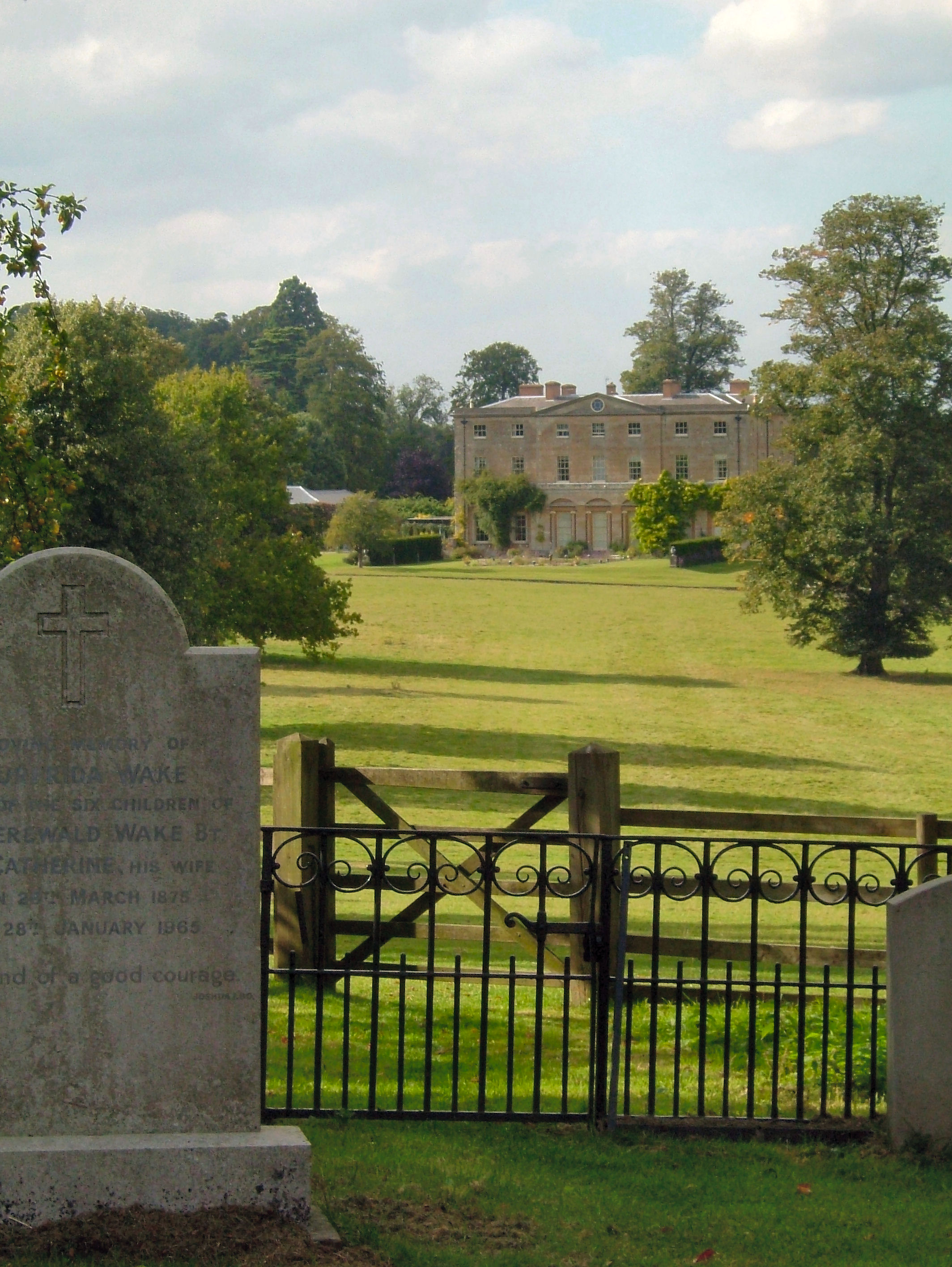 Courteenhall, Northamptonshire, England from the Churchyard in the village of the same name, taken September 2007